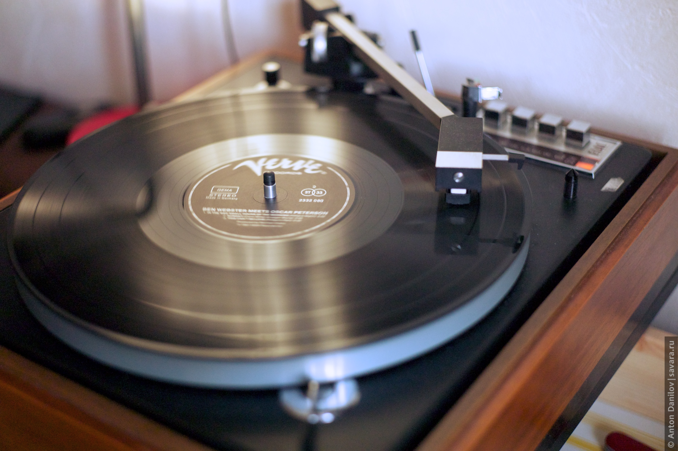 ELAC Miracord turntable (probably, model 770H). This is the real deal, not a modern imitation.